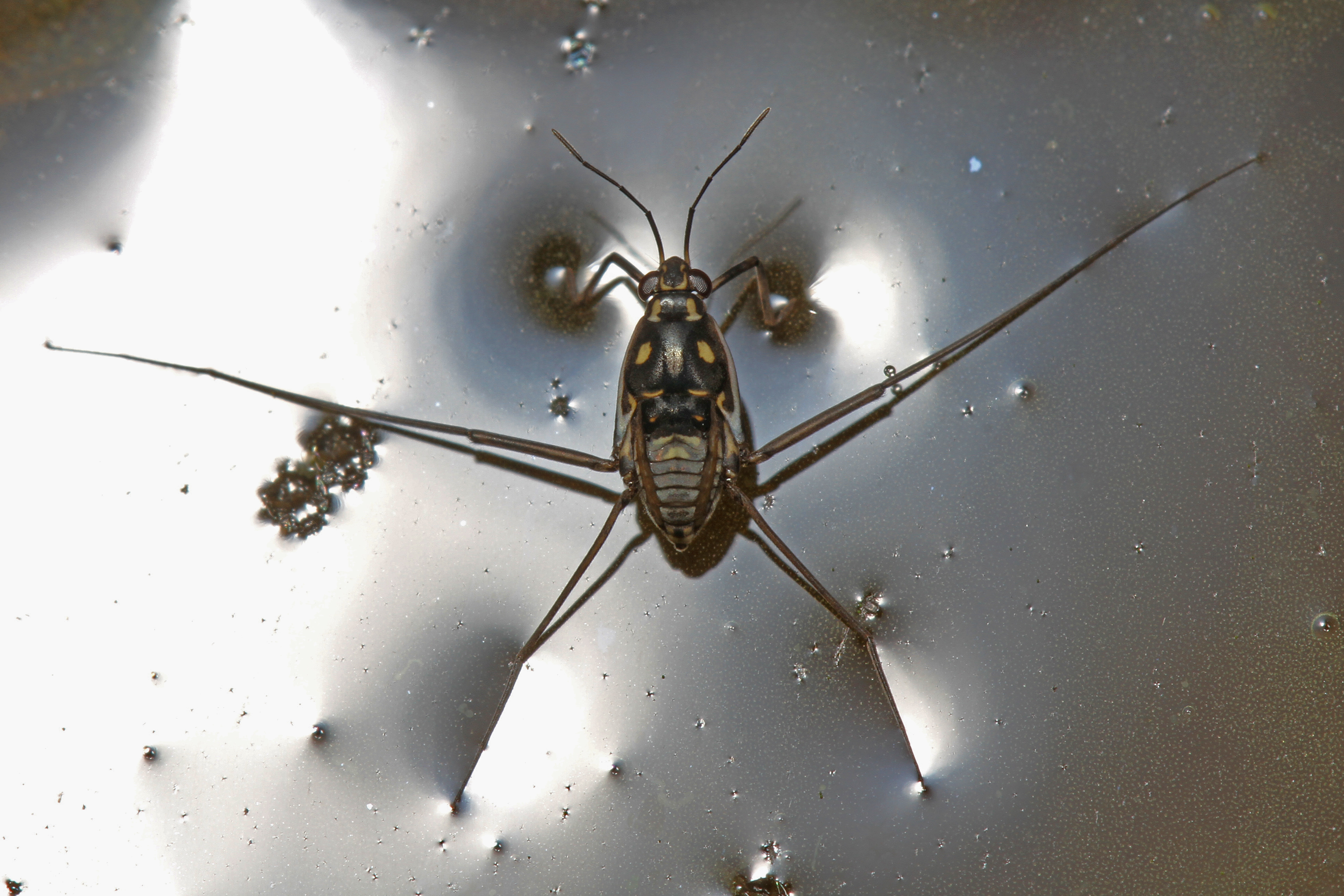 Water Strider - Trepobates subnitidus, Dans Mountain State Park, Lonaconing, Maryland. 8/29/2013 - Allegany County This is a tentative identification from bugguide (Dr. Epler) The genus is definite, the species is likely